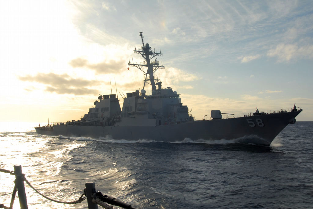 ATLANTIC OCEAN (April 14, 2007) – Guided missile destroyer USS Laboon (DDG 58) pulls up alongside USS Bainbridge (DDG 96) during maneuvering exercises in the Atlantic. Laboon and Bainbridge are both in transit to participate in the Neptune Warrior training course, which will test the interoperability of NATO coalition forces. U.S. Navy photo by Mass Communication Specialist Seaman Coleman Thompson (RELEASED)